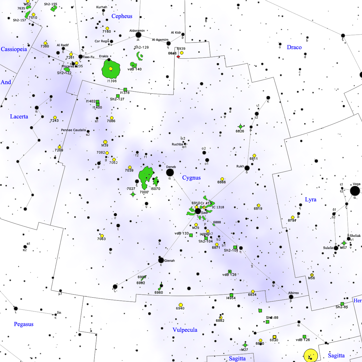 Cygnus constellation map, with DSOs